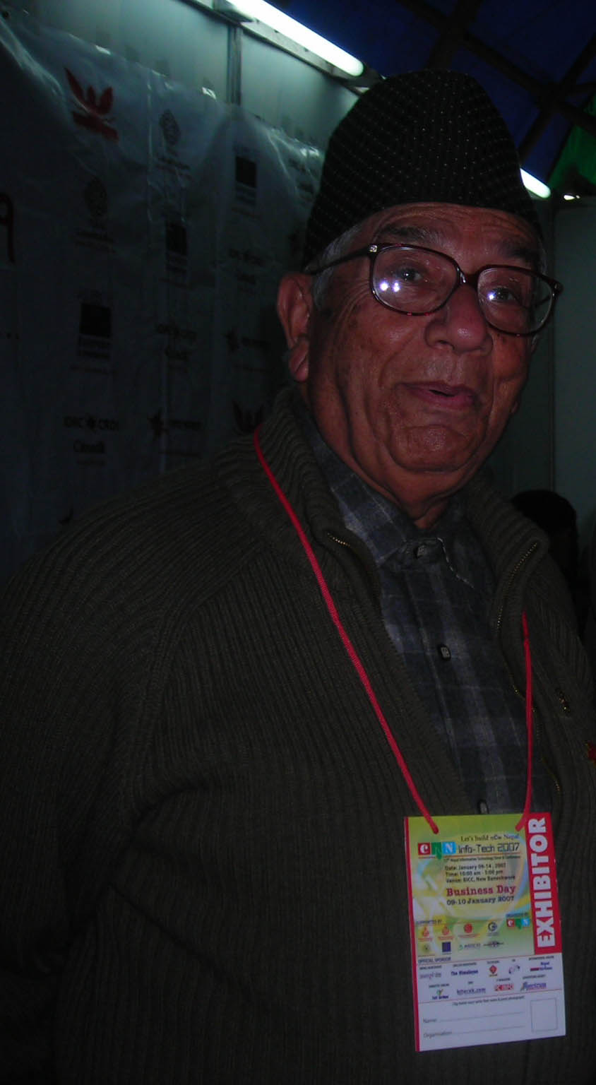 Kamal Dixit as an exhibitor of Madan Puraskar Pustakalaya during CAN Infotech 2007